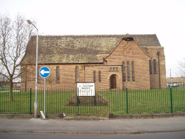 St Paulinus Church New Ollerton. At the junctions of Briar Rd, Larch Rd, Yew Tree Rd, and Lime Tree Rd, St Paulinus is in the middle of a large roundabout, known locally as Church Circle